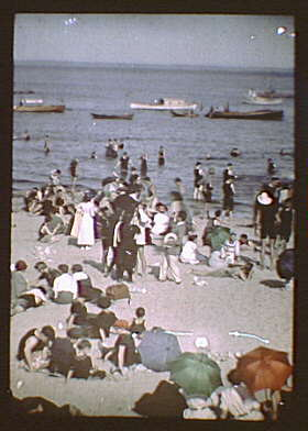 Sunday at Rye Beach, New York. Autochrome by Arnold Genthe